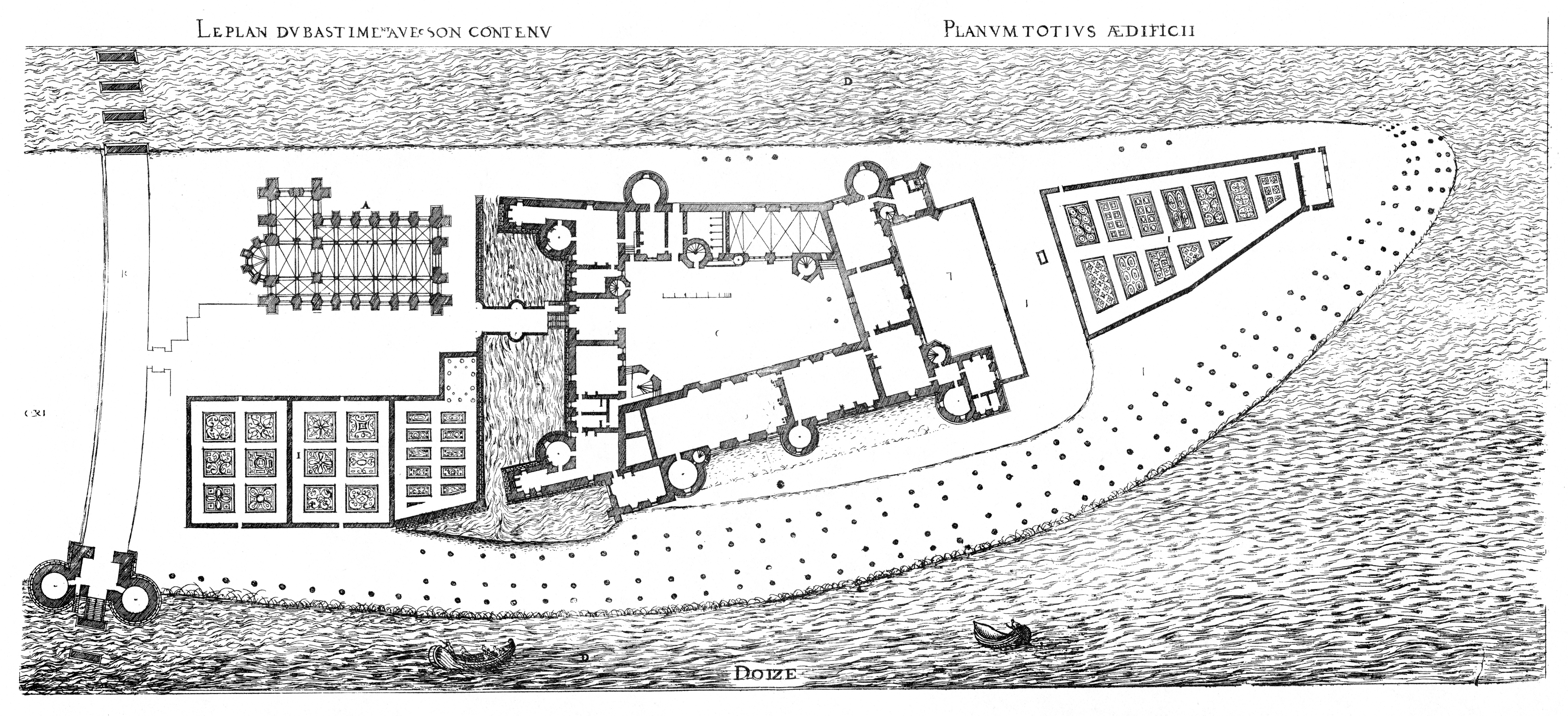 Engraving from Le premier volume des plus excellents Bastiments de France by Jacques I Androuet du Cerceau: plan of the Château de Creil